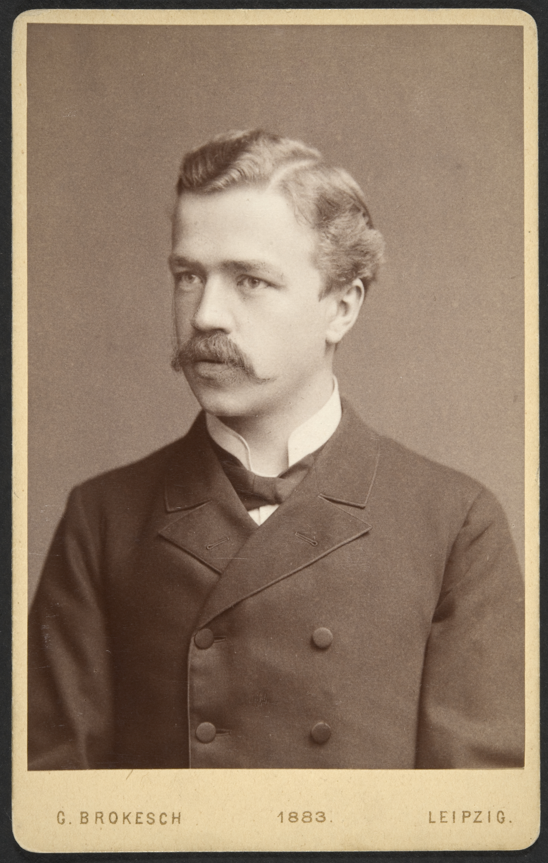 Photograph of the Finnish educationist Waldemar Ruin (1857–1938).